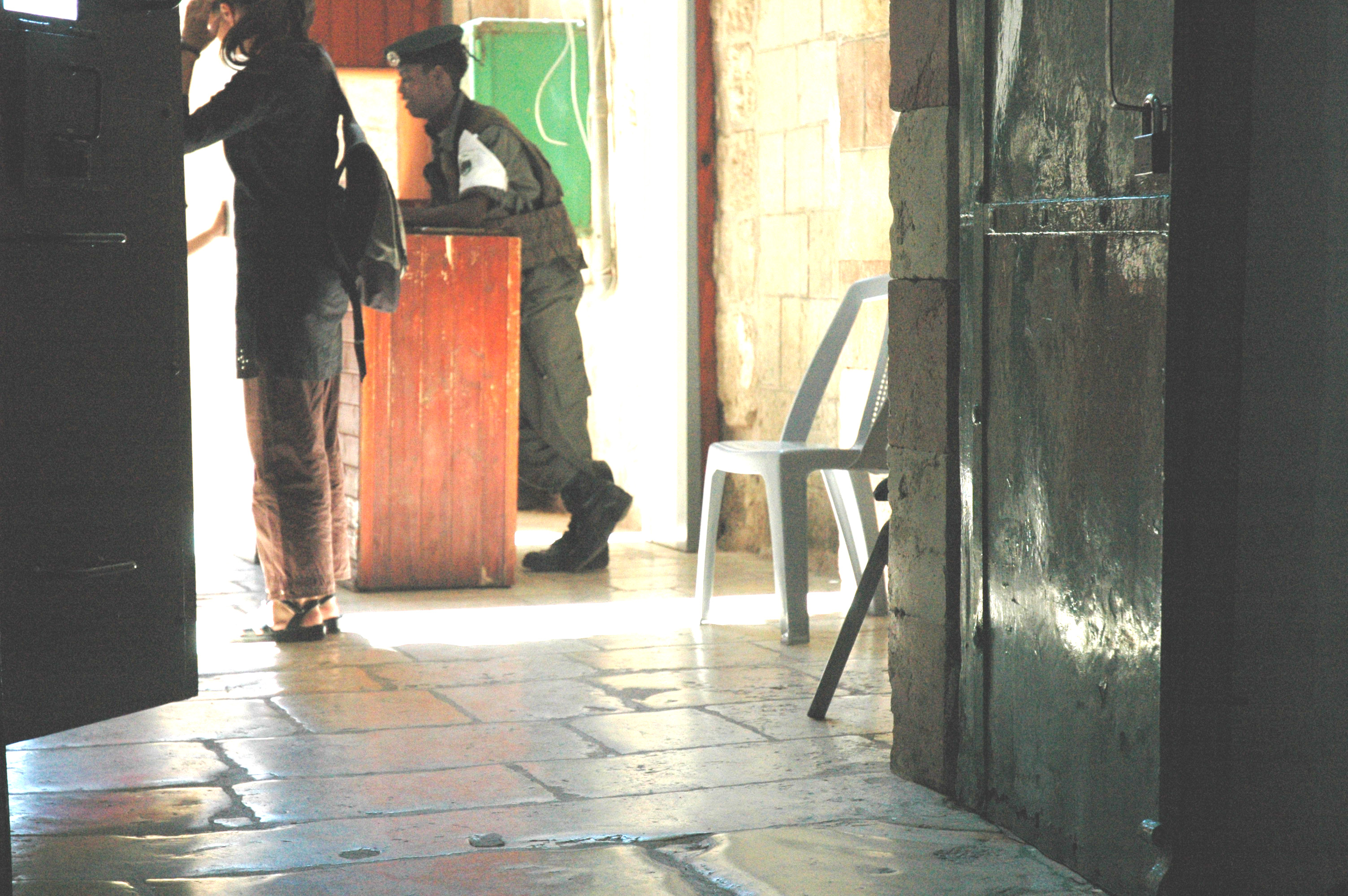 Hebron. An Israeli Ethiopian soldier leans on a metal detector at the 2nd security check before entering the mosque at the tomb of Abraham.